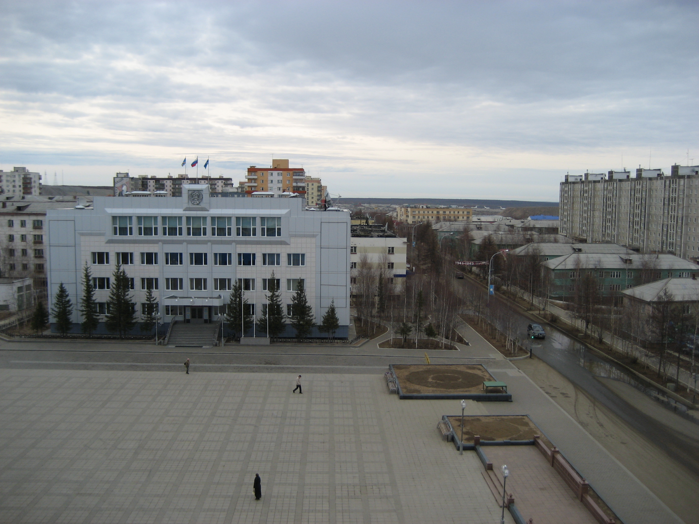 Center Square in Mirny, Sakha (Yakutia), Russia.